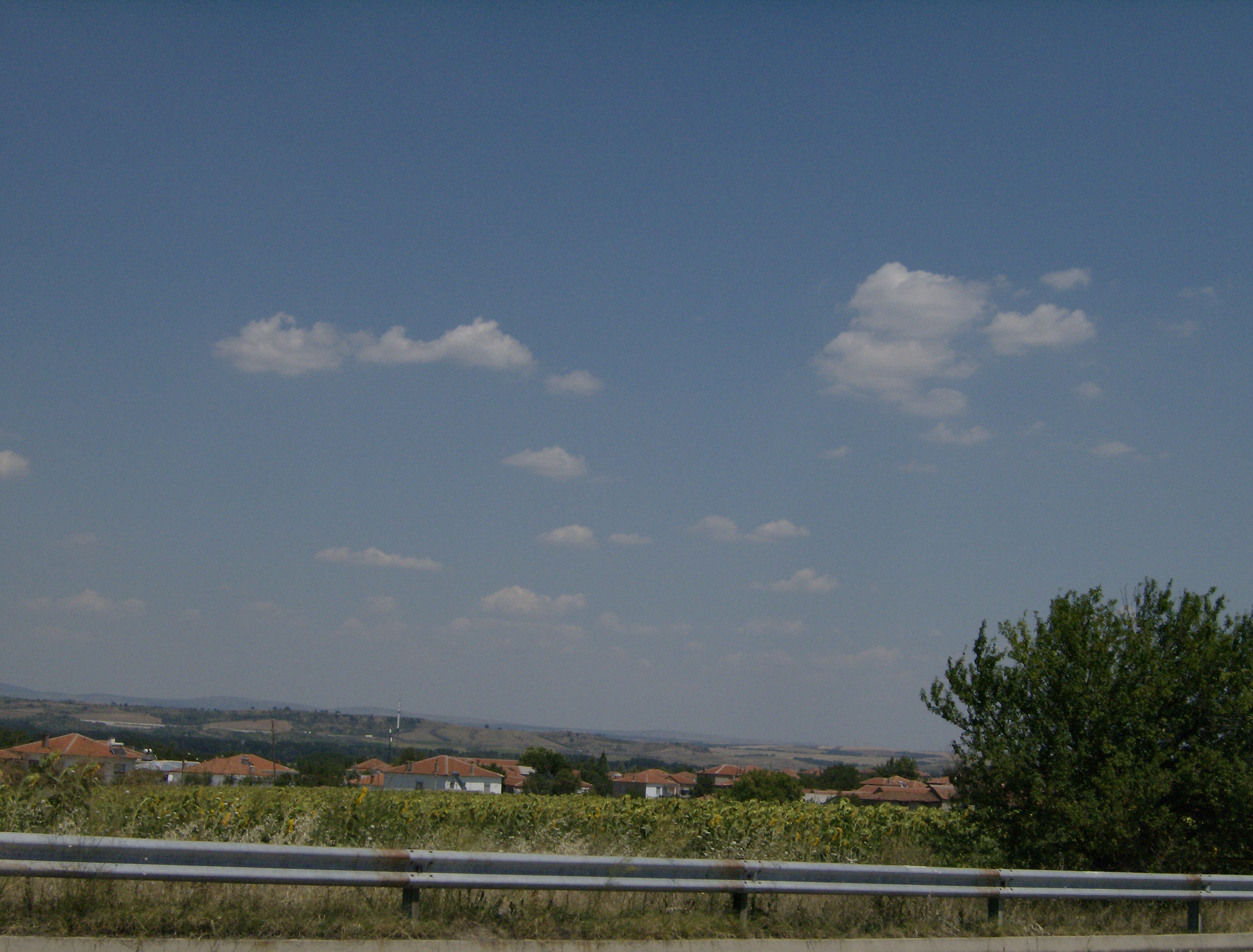 Ormenio